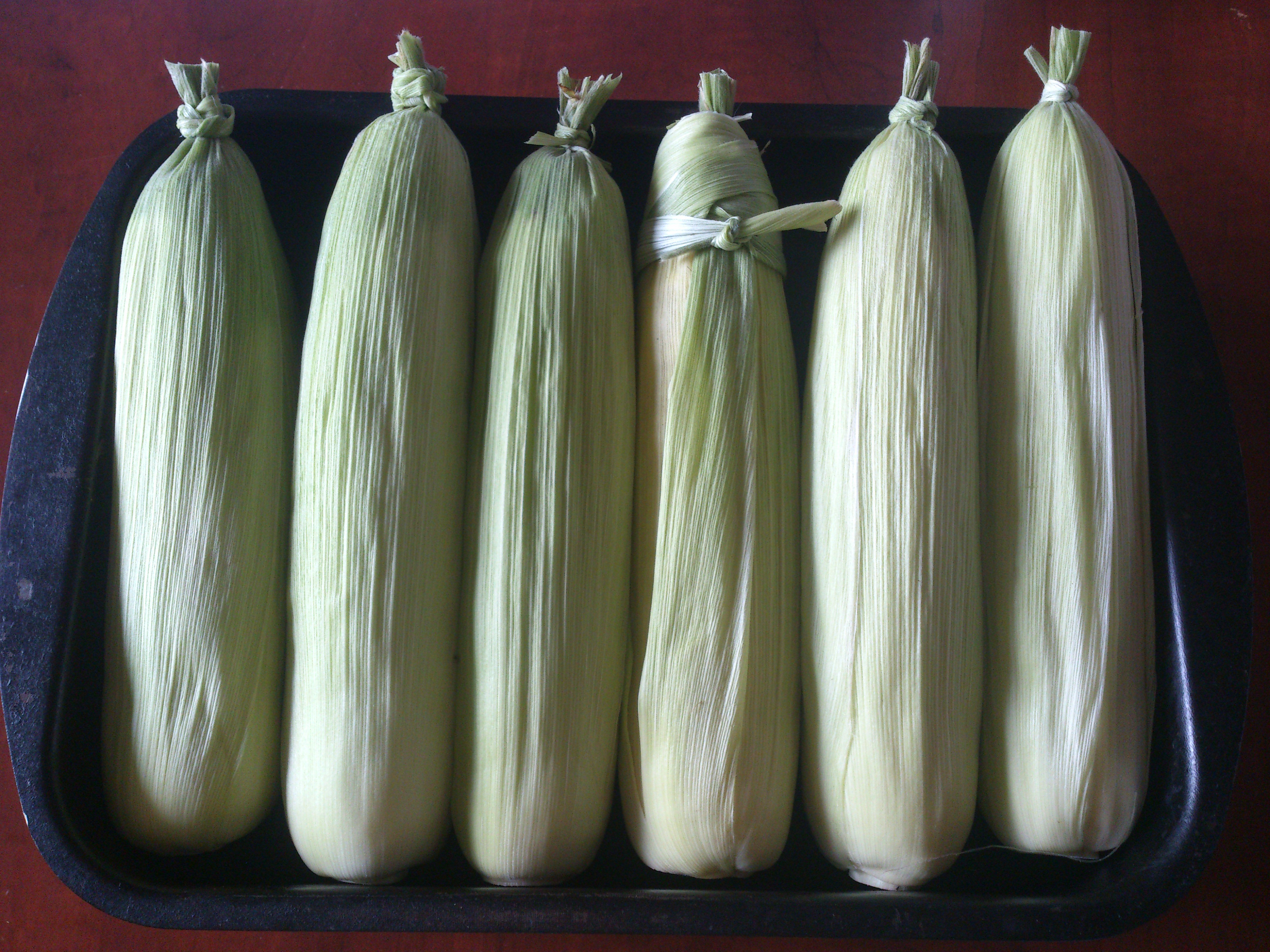 Corn on the cob (corncobs) which are prepared for roasting as inspired by Nero Wolfe's recipe mentioned in Murder Is Corny (1964) and revisited in The Nero Wolfe Cookbook (1973) by Rex Stout.